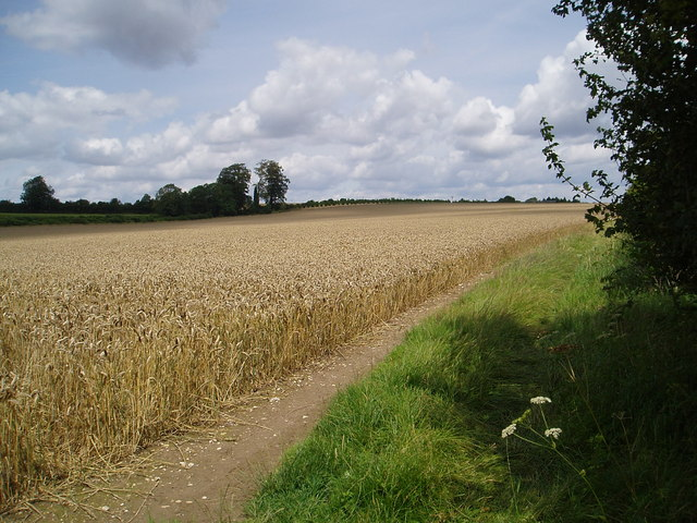 Hampshire Downland above Alresford The Hampshire Downs are one of the breadbaskets of Southern England. Here wheat is growing on the free draining chalk downs in a field bounded by a newly planted hedgerow on the right.